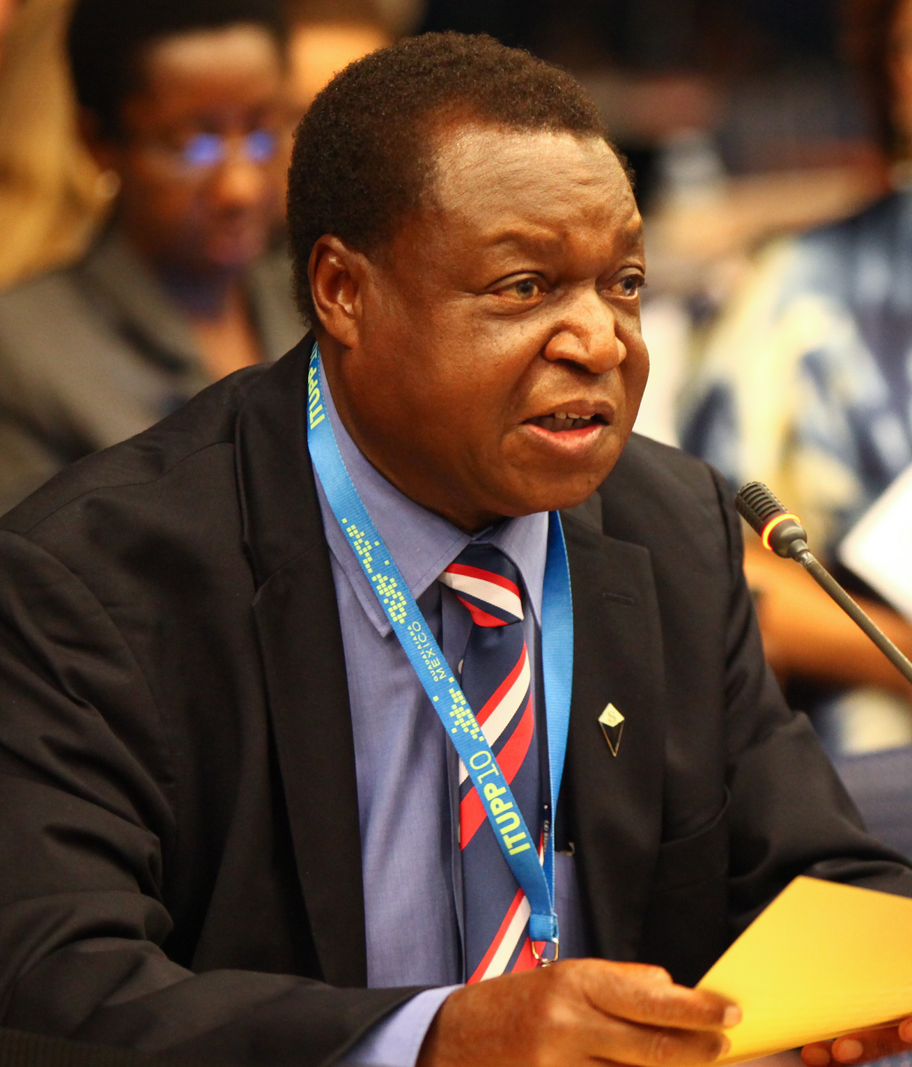 Delegates from Tanzania in the plenary session at the ITU Plenipotentiary Conference 2010, Guadalajara, Mexico